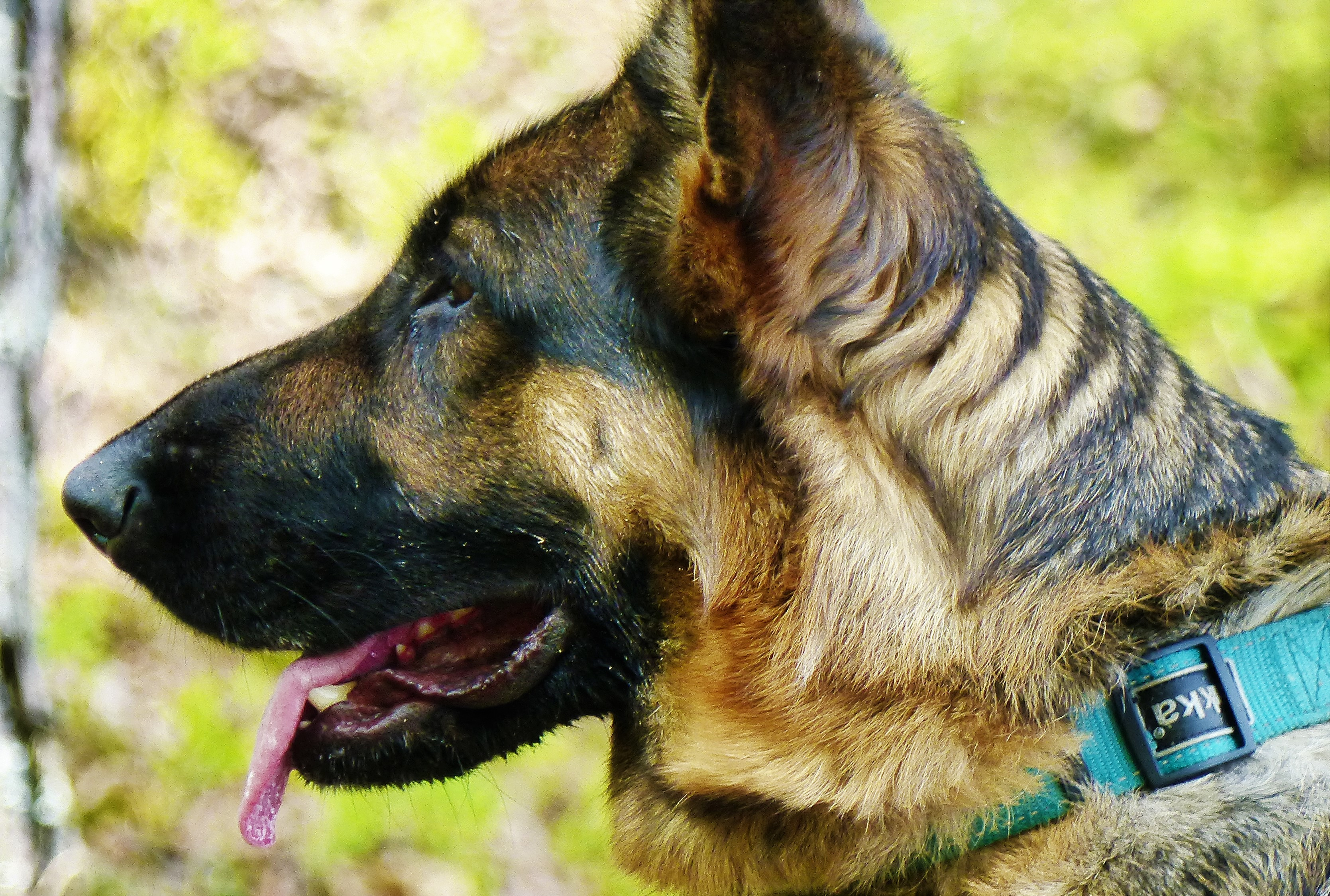 A 3 years old German shepherd female